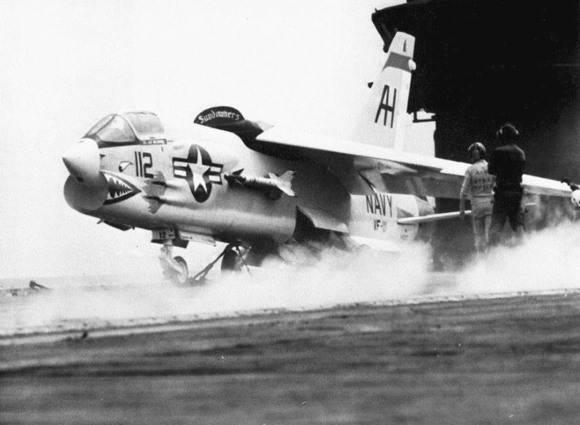 A U.S. Navy Vought F-8C Crusader of Fighter Squadron 111 (VF-111) "Sundowners" is launched from the aircraft carrier USS Oriskany (CVA-34). VF-111 was assigned to Carrier Air Wing 16 (CVW-16) aboard the Oriskany for a deployment to Vietnam from 16 June 1967 to 31 January 1968.